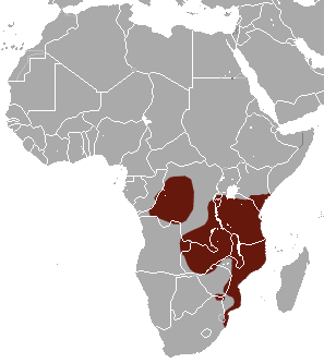 Four-toed Elephant Shrew (Petrodromus tetradactylus) range